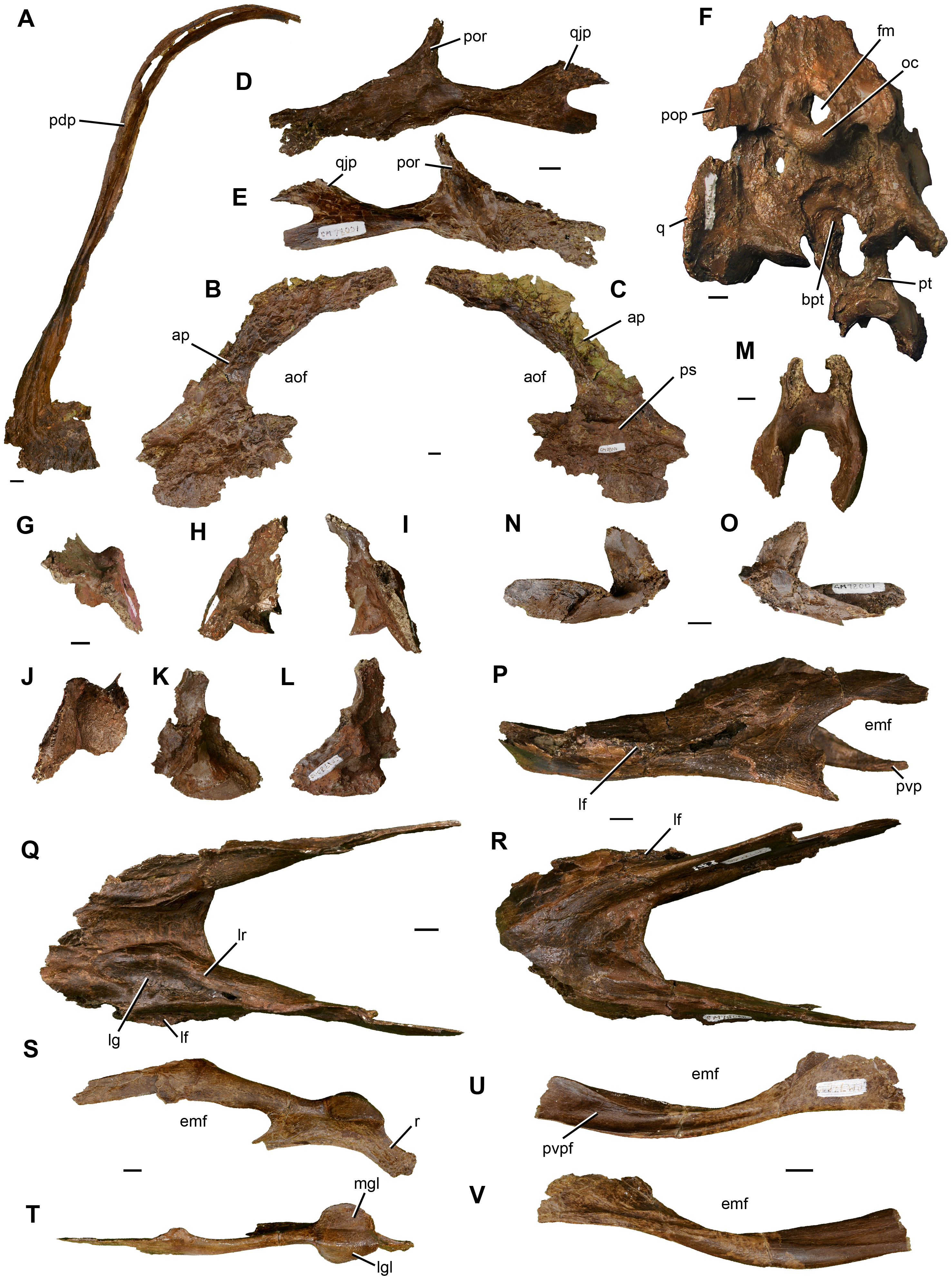 Photographs of craniomandibular elements of Anzu wyliei gen. et sp. nov. (A) Left premaxilla of CM 78001 in lateral view. Left maxilla of CM 78001 in lateral (B) and medial (C) views. Left jugal of CM 78001 in lateral (D) and medial (E) views. (F) Braincase with articulated quadrates and pterygoids of CM 78001 in posterior view. Right quadrate of CM 78000 in dorsal (G), anterior (H), posterior (I), ventral (J), medial (K), and lateral (L) views. (M) Fused pterygoids of CM 78000 in ventral view. Right ectopterygoid of CM 78001 in lateral (N) and medial (O) views. Fused dentaries of CM 78000 in left lateral (P), dorsal (Q), and ventral (R) views. Left surangular–articular–coronoid complex of CM 78000 in lateral (S) and dorsal (T) views. Left angular of CM 78000 in lateral (U) and medial (V) views. Abbreviations: aof, antorbital fenestra; ap, ascending process; bpt, basipterygoid process; emf, external mandibular fenestra; fm, foramen magnum; lf, lateral flange; lg, lateral groove; lgl, lateral facet of mandibular glenoid; lr, lingual ridge; mgl, medial facet of mandibular glenoid; oc, occipital condyle; pdp, posterodorsal process; pop, paroccipital process; por, postorbital process; ps, palatal shelf; pt, pterygoid; pvp, posteroventral process; pvpf, facet for posteroventral process of dentary; q, quadrate; qjp, quadratojugal process; r, retroarticular process. Scale bars = 1 cm.